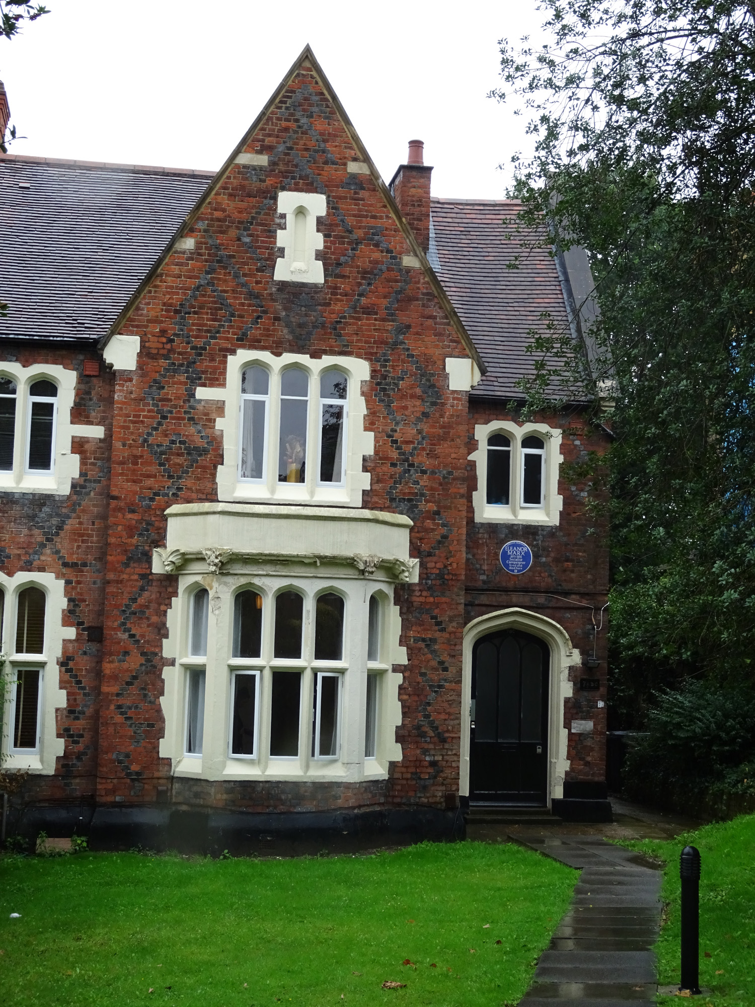 ELEANOR MARX 1855-1898 Socialist Campaigner lived and died here